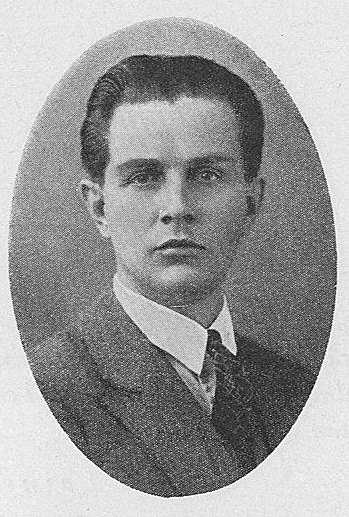 Finnish theatre personality, early 1930s.